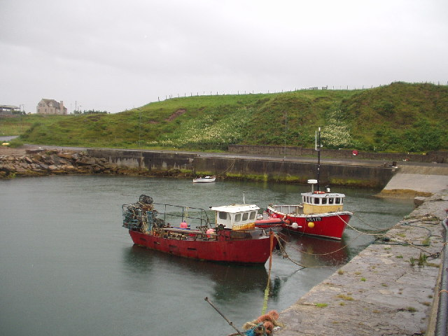 Gill's Bay. The Ferry Terminal on the North coast to St Margaret's Hope on Orkney